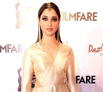 Actress Tamannaah at the 62nd Filmfare Awards South ceremony held in Nehru Stadium, Chennai